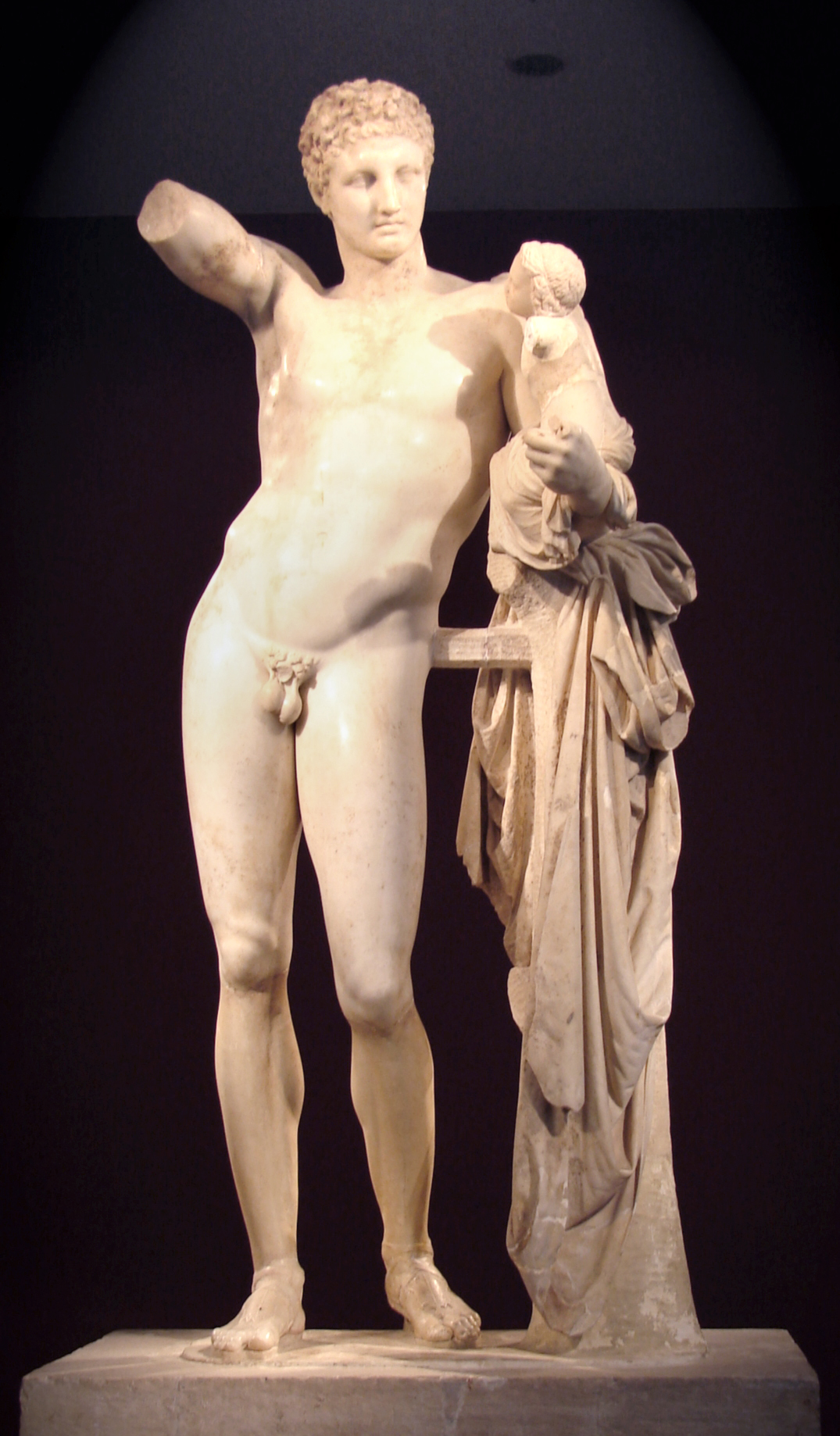 Hermes bearing the good person by Praxiteles. Parian marble, H. 2.15 m (7 ft. ½ in.). Archaeological museum of ancient Olympia, Greece. From the German excavations of the Heraion at Olympia, 1877.